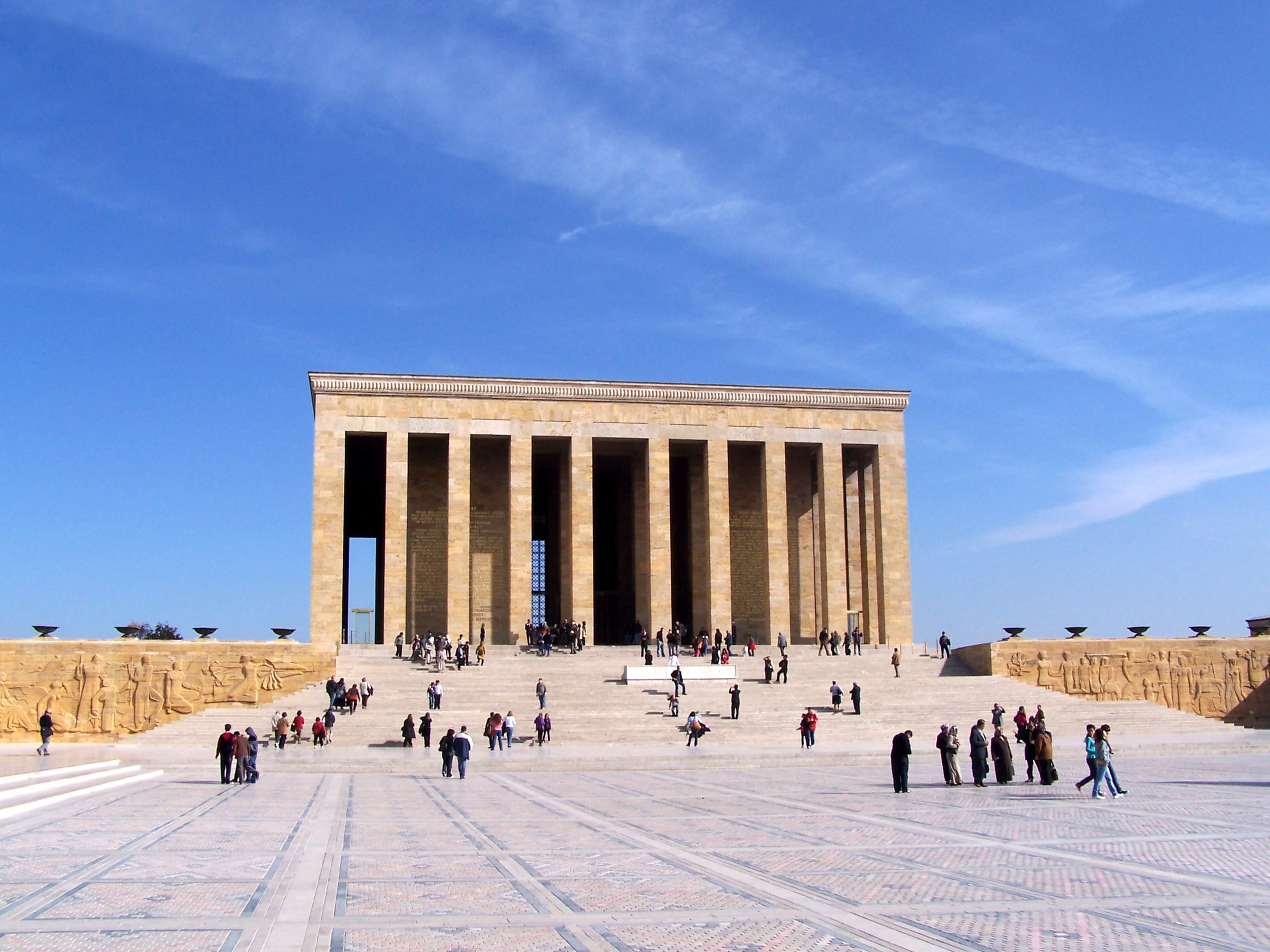 Anıtkabir, Ankara - the mausoleum of Mustafa Kemal Atatürk, the leader of the Turkish War of Independence and the founder and first president of the Republic of Turkey.